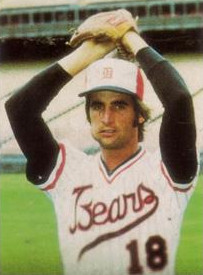 Professional baseball player Randy Miller